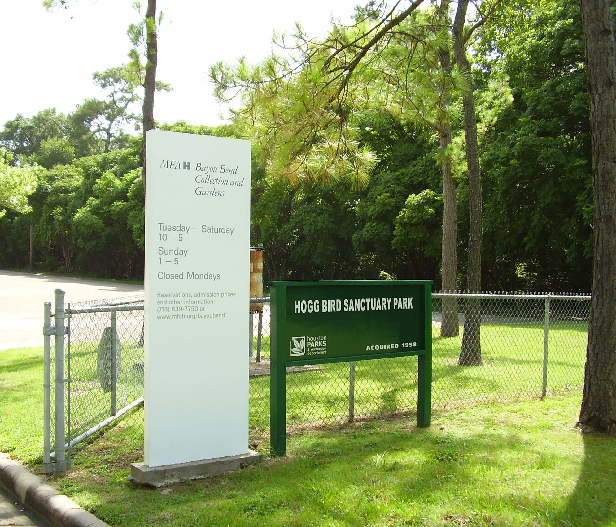 Bayou Bend Collection and Gardens Entrance